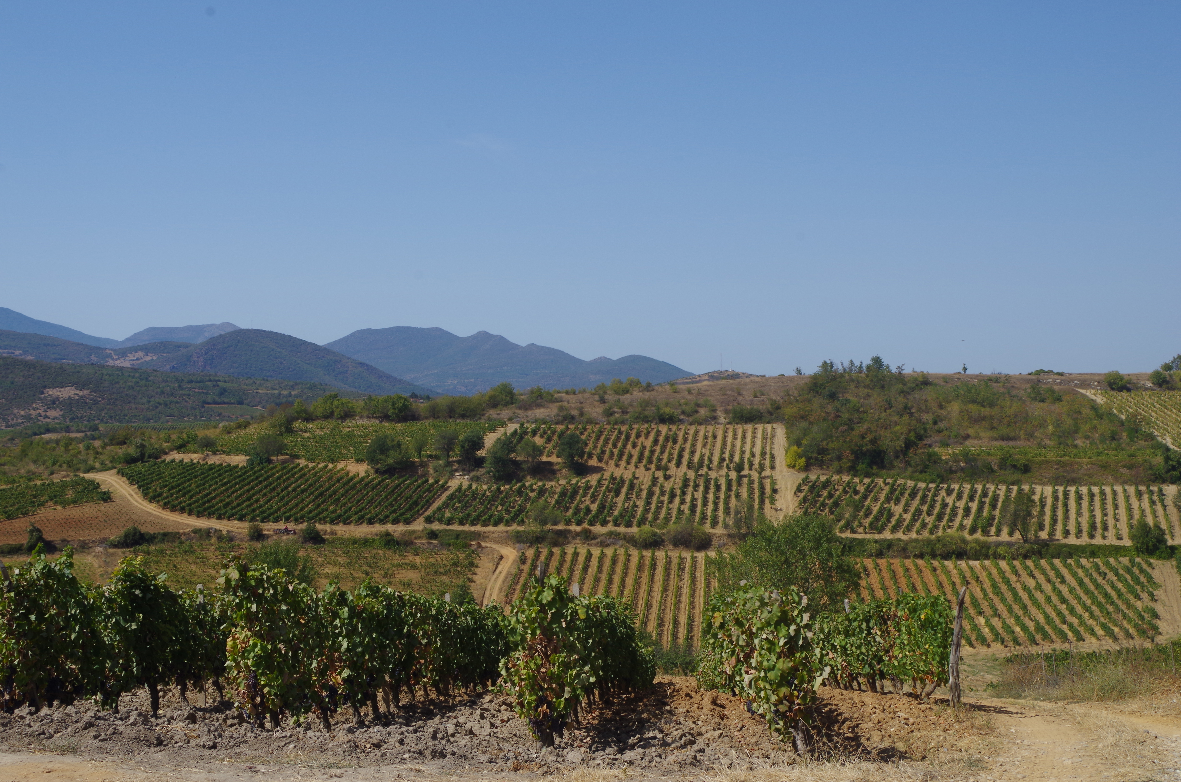 Vineyards near the village of Begnište